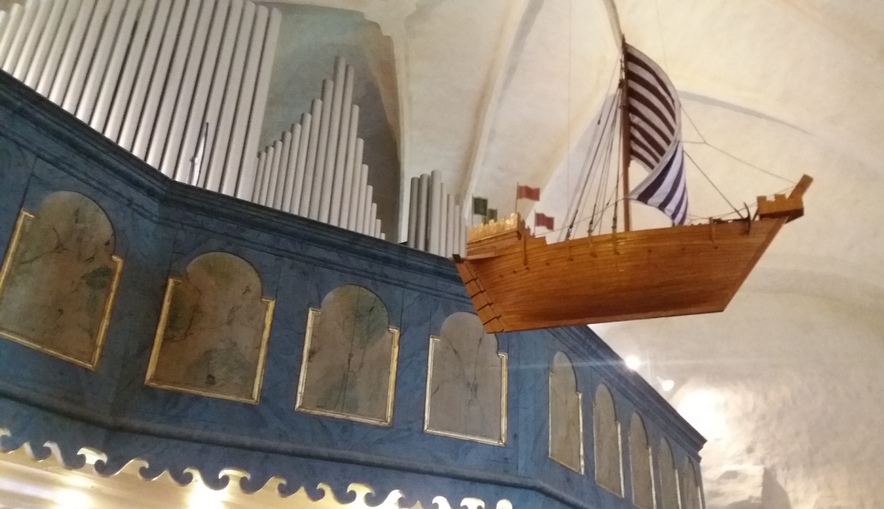 A traditional votive ship in the medieval St. Olof's Church. Ulvila, Finland. A model of a 13th-14th-century cog-style ship (Hansekogge) sailed by German Hansa merchants. This photo has been taken in the country: Finland